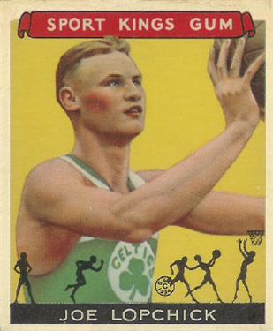 1933 Goudey Sport Kings Basketball card of Joe Lapchick of the Original Celtics #32. PD-not-renewed.